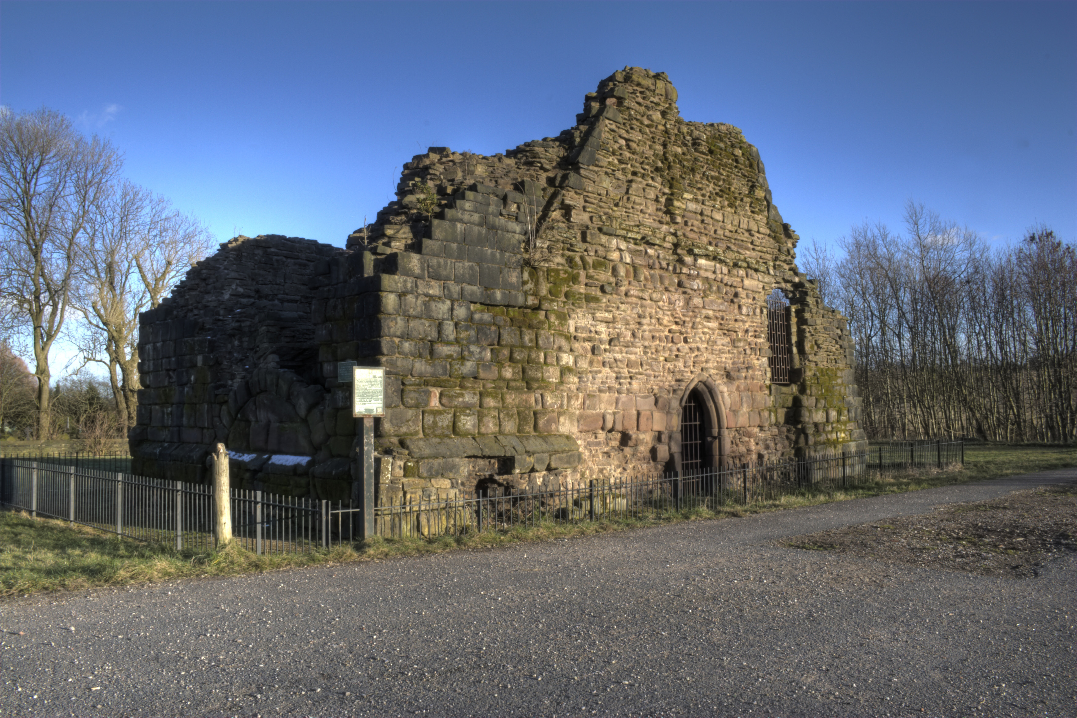 Radcliffe Tower, Radcliffe, Greater Manchester, UK. Seen from the north west.